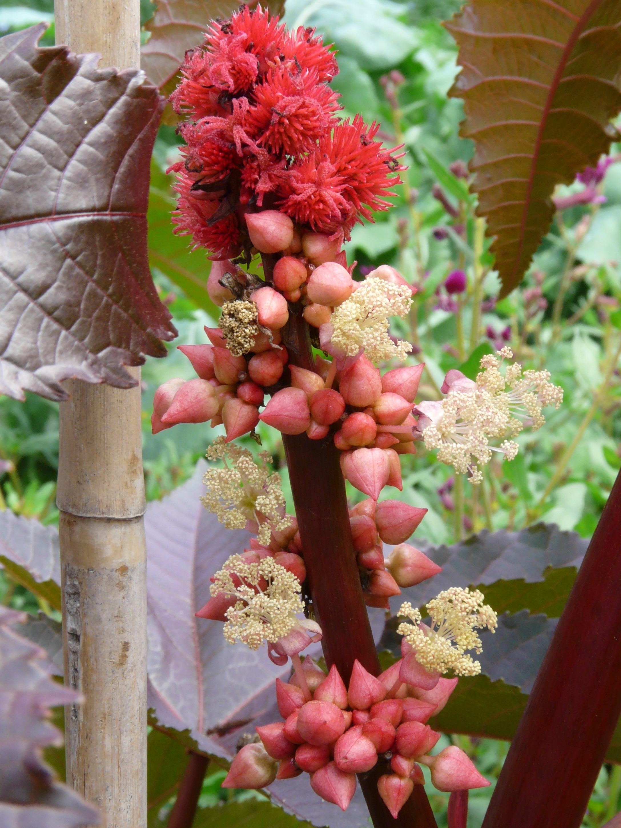 Ricinus communis (Botanical Gardens Utrecht)